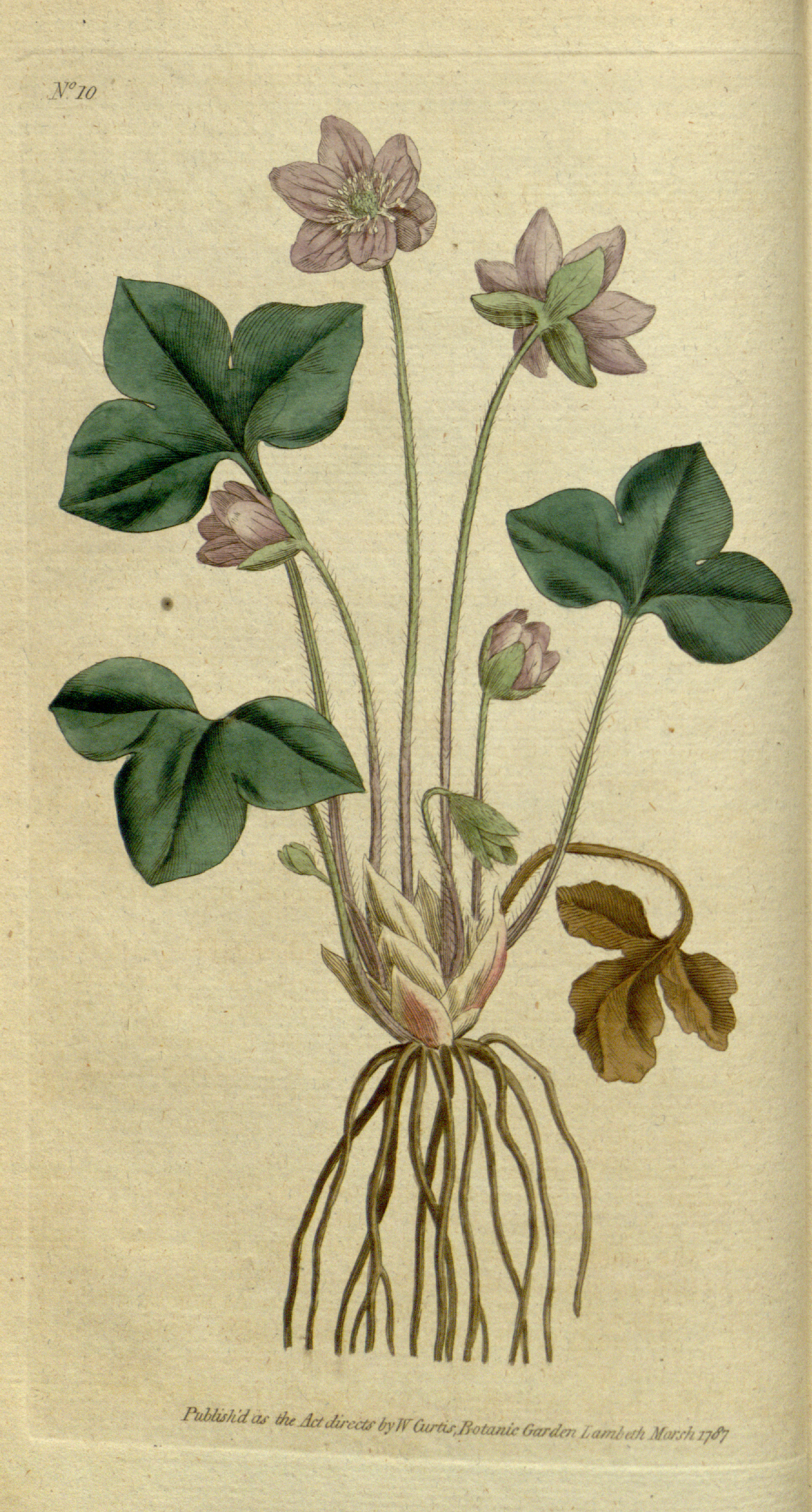 This is Plate 10 from The Botanical Magazine, Volume 1. Anemone hepatica